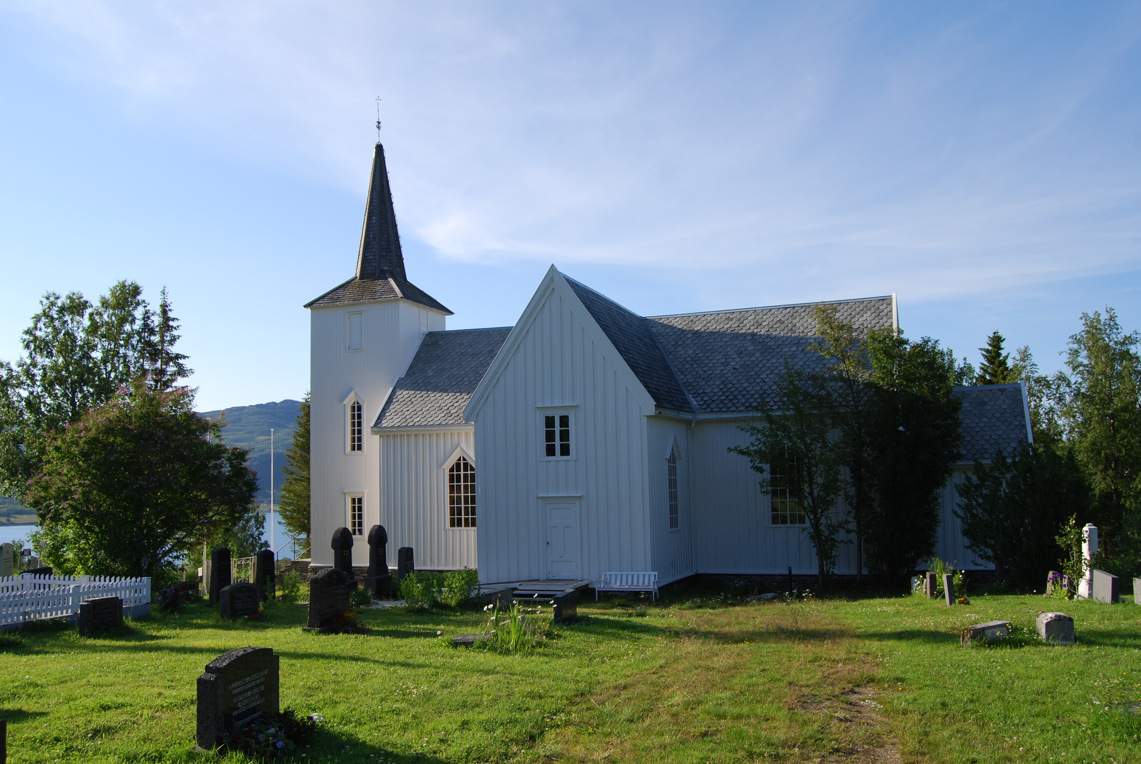 Rossfjord kirke, Lenvik, Norway.